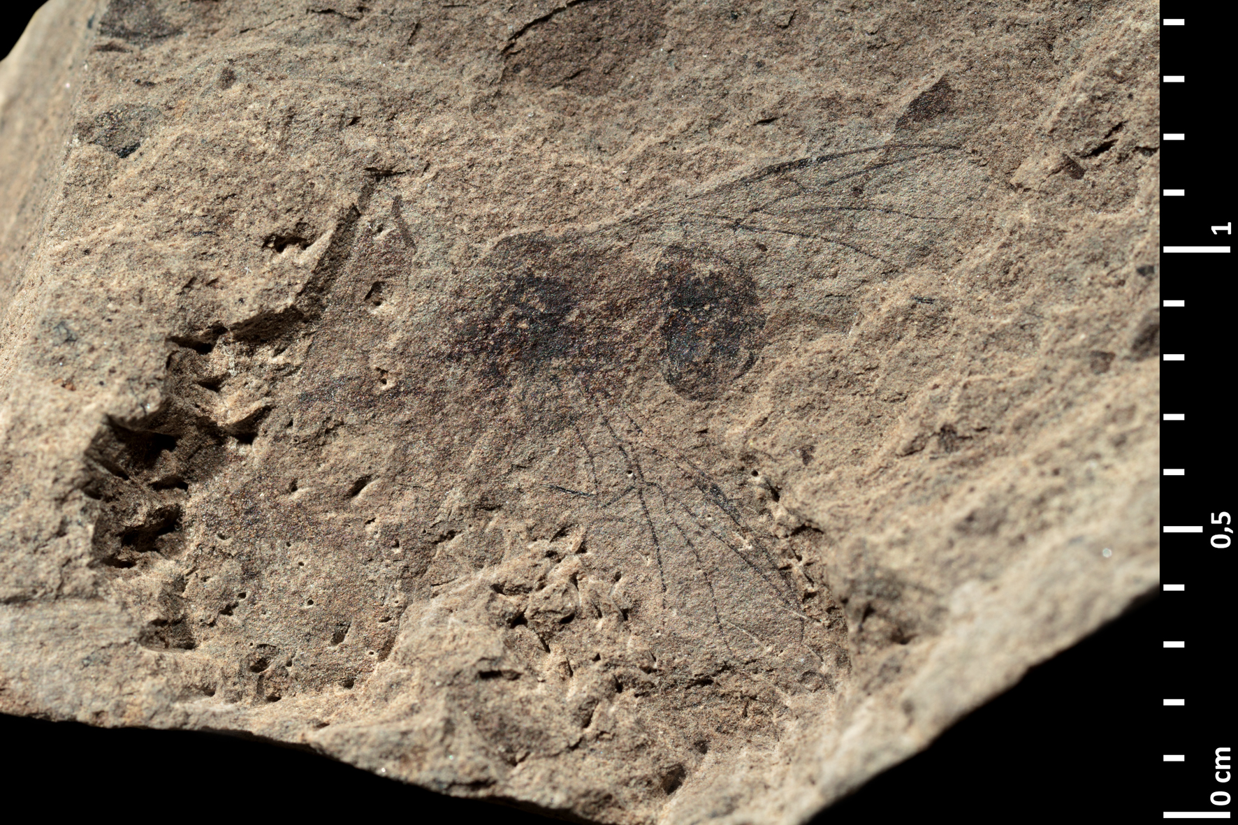 The Paleoropronia salamonei holotype part specimen with direct lighting. Thanetian, Paleocene; Menat Formation, Menat Basin, Puy-de-Dôme, France Muséum national d'Histoire naturelle specimen MNHN.F.A57266